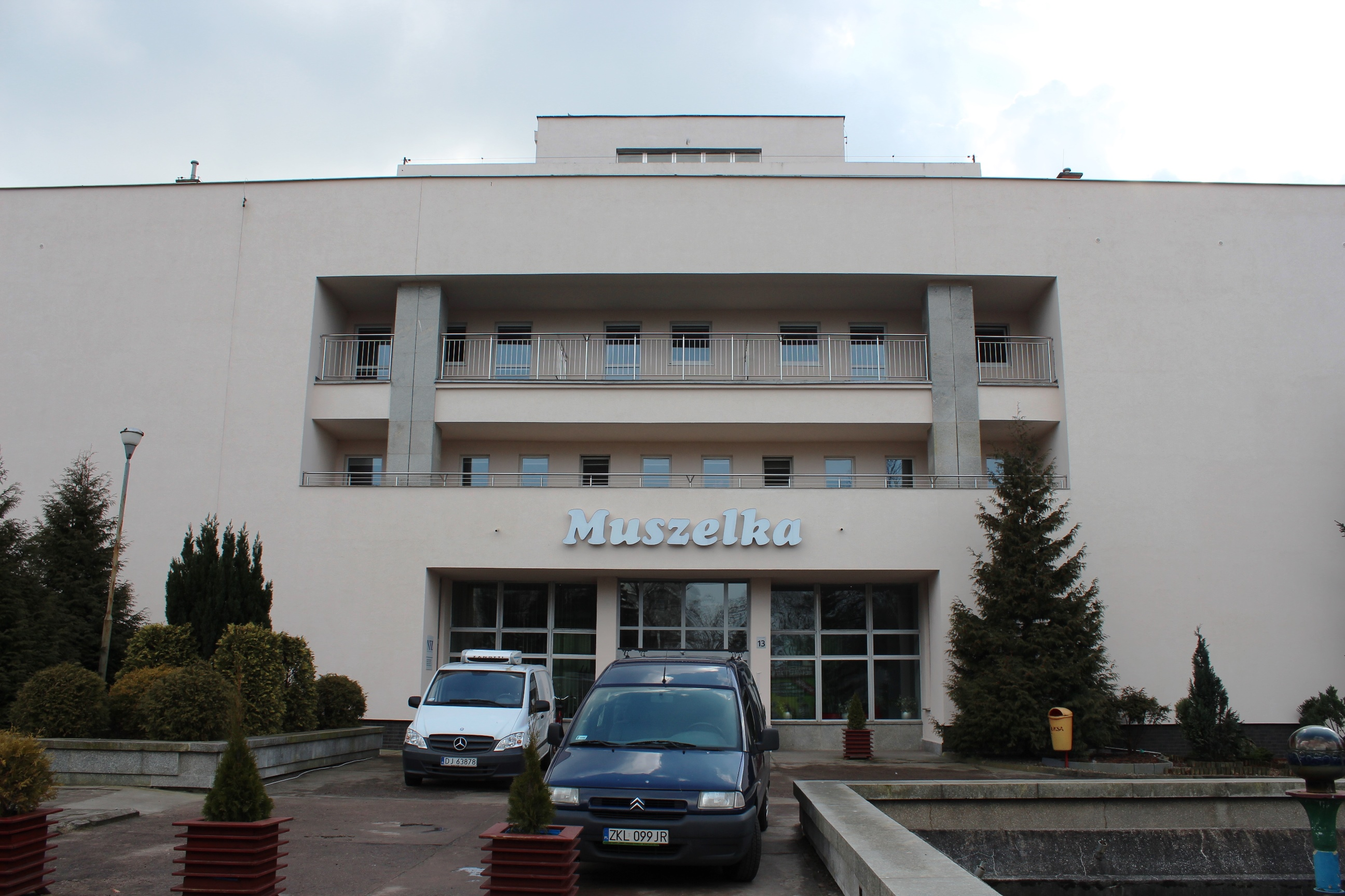 Muszelka Sanatorium in Kołobrzeg